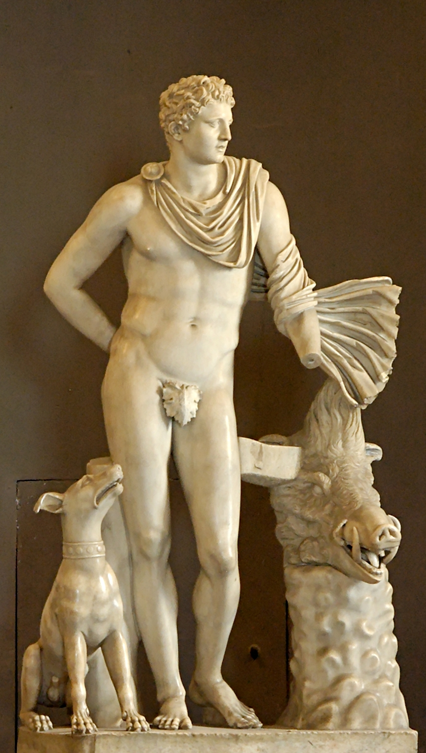 Meleager and the Calydon Boar. Marble, Roman copy from the Imperial Era (ca. 150 CE) after a Greek original from the 4th century BC.